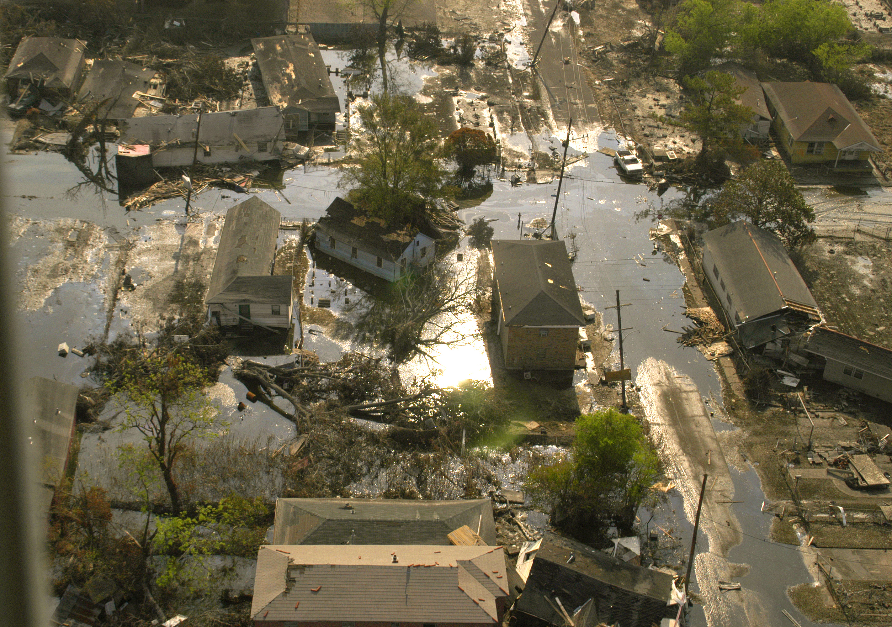 Aftermath of Hurricane Katrina: West Chalmette, New Orleans, LA, 9-16-05 -- Oil is leaking from the Murphy Oilstorage facility in Chalmette into this neighborhood. The flood water conains mold, oil, gas, and things not identifiable. Hundreds of thousands of people have been displaced by Hurricane Katrina. They need water, ice, food, housing, and jobs. MARVIN NAUMAN/FEMA photo